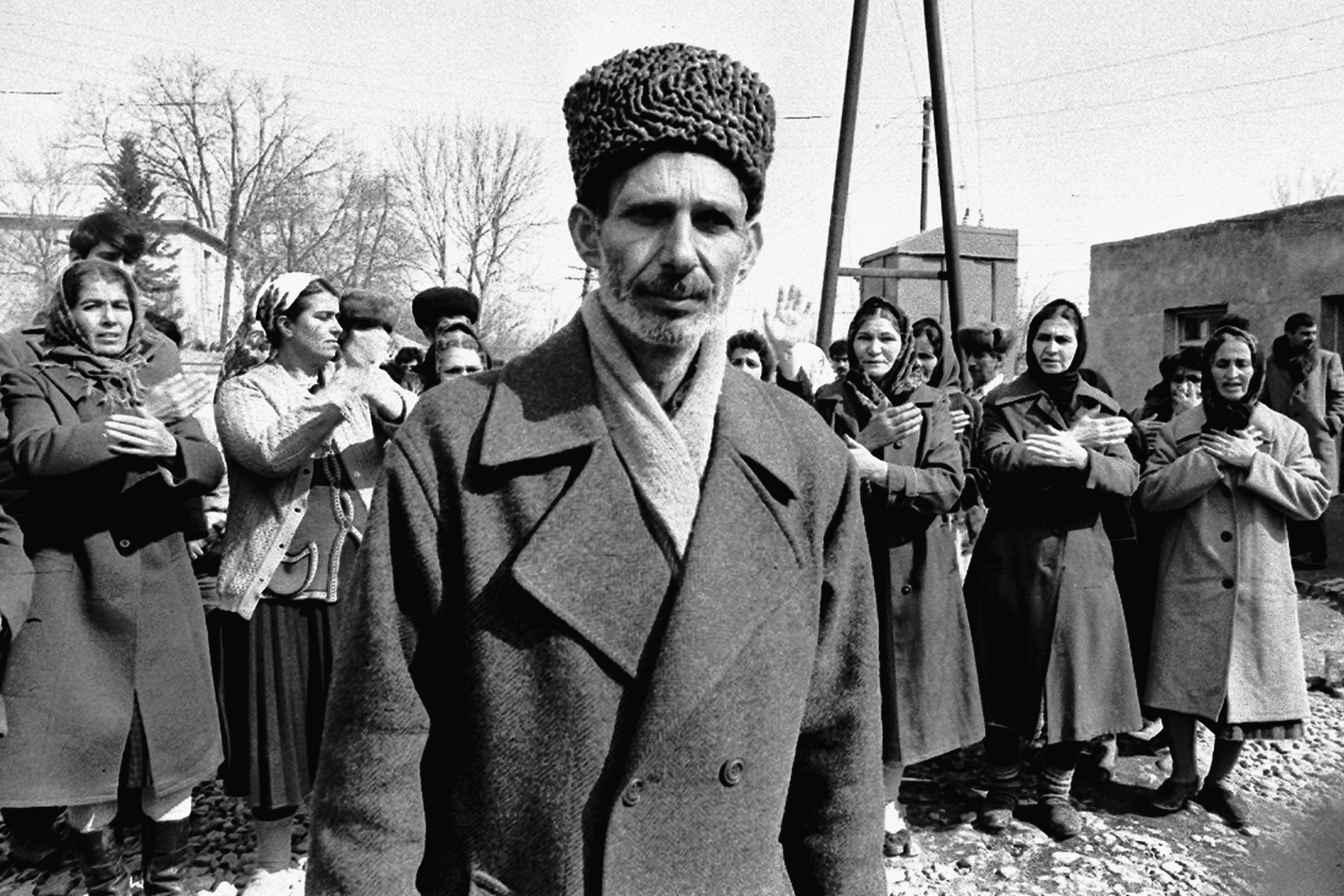 Shakhsey-vakhsey in Agdam for victims of Khojaly massacre